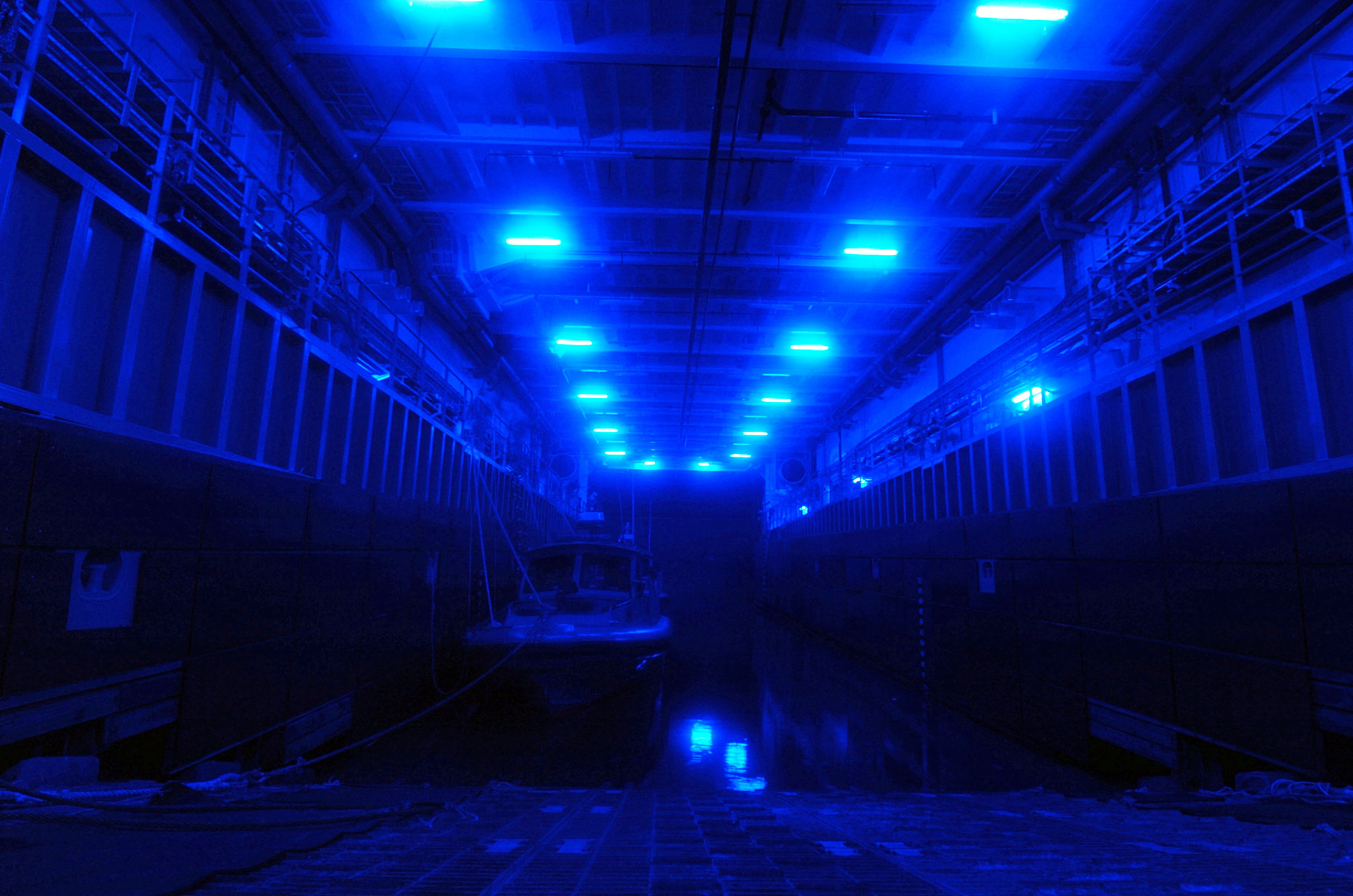 Inshore Boat Unit (IBU) 21 & 22 security patrol boats sit moored in the well deck of the Royal Fleet Auxiliary dock landing ship RFA Cardigan Bay (L 3009). IBU-21 & 22 conduct security sweeps and visit, board, search and seizure operations in the northern Persian Gulf from the British dock landing ship.